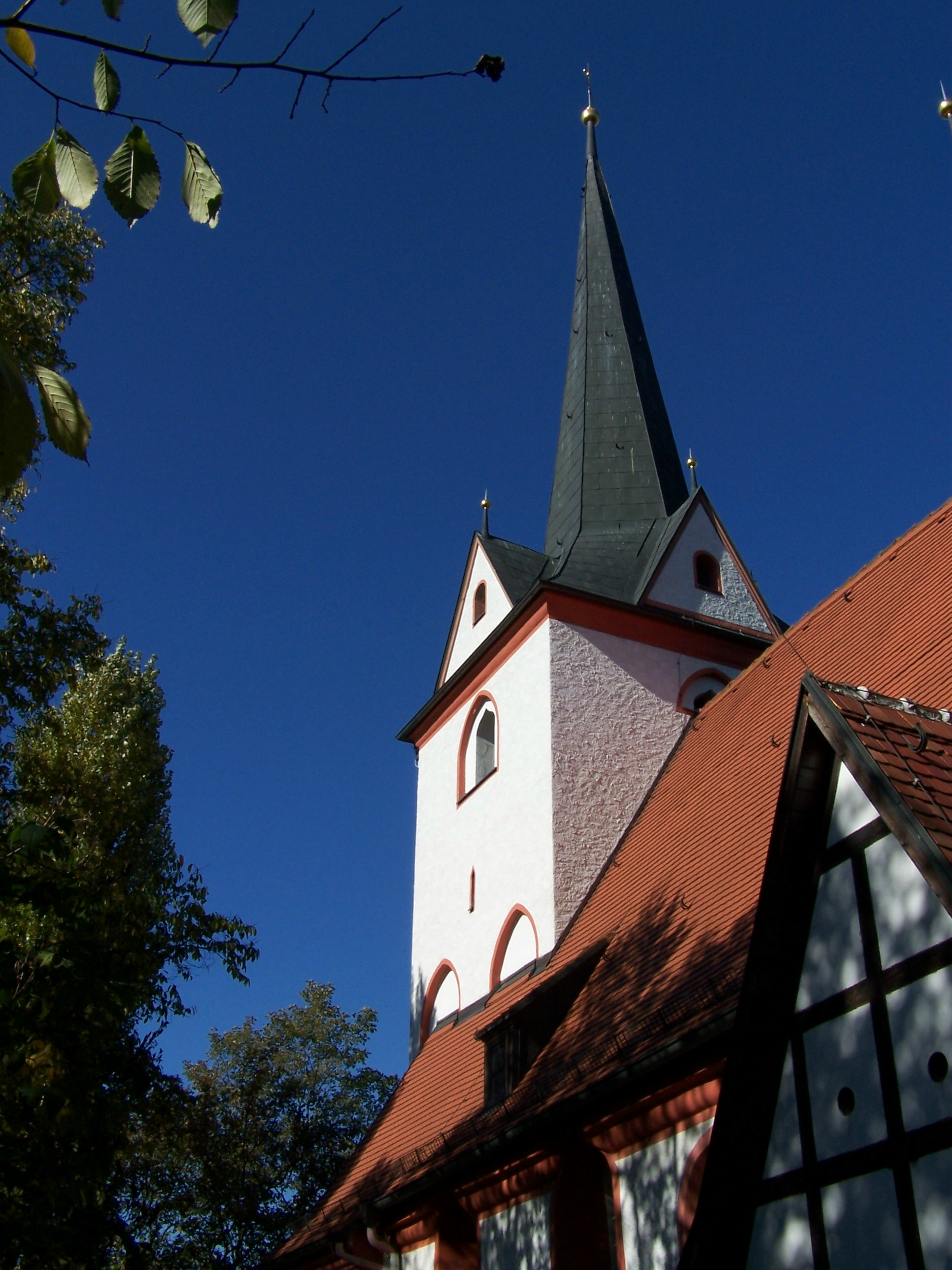 Steeple of the Gnadenkirche in Wahren which is a suburb of Leipzig